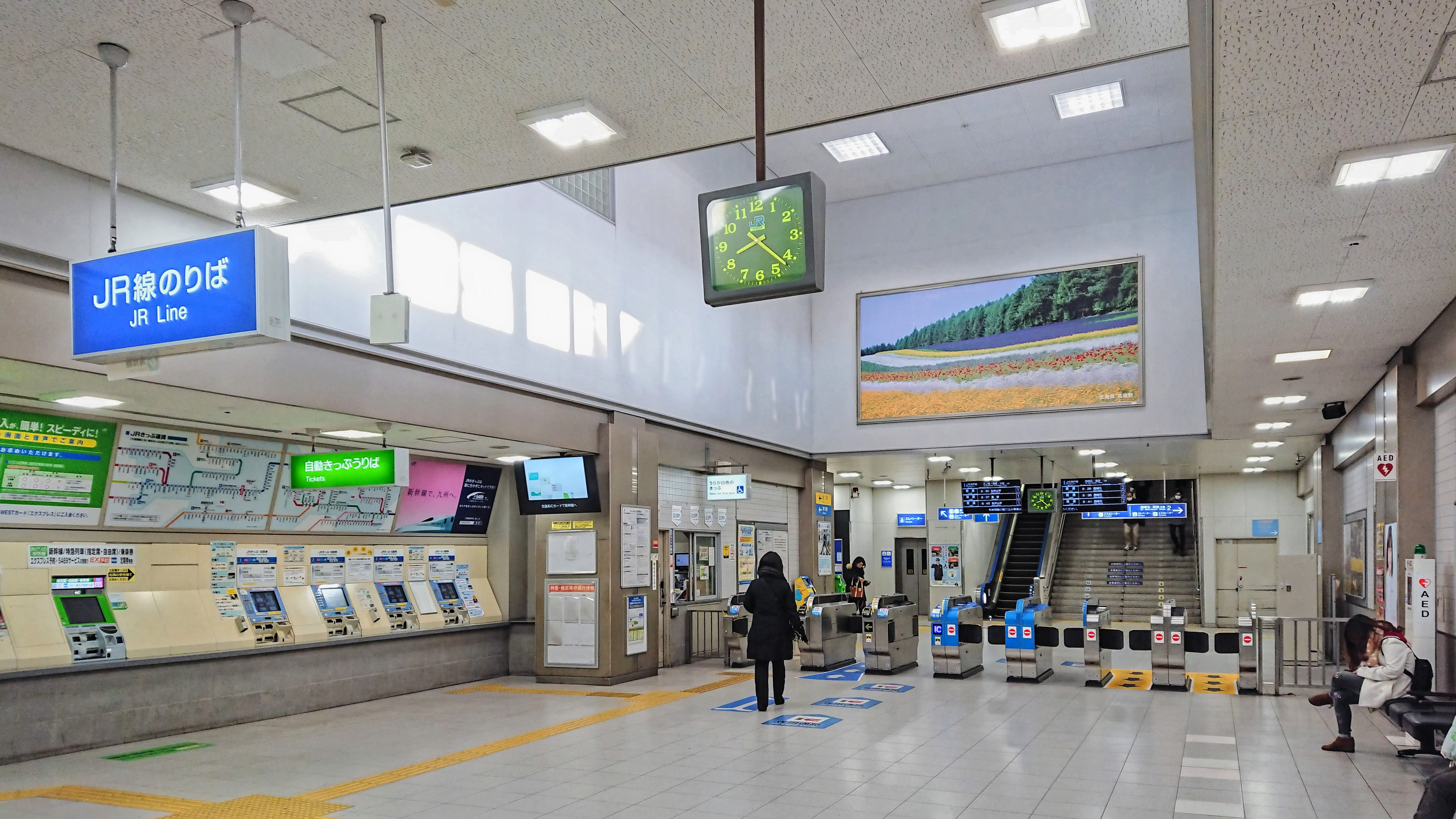 The west ticket barriers at Shin-Nagata Station in Kobe, Japan